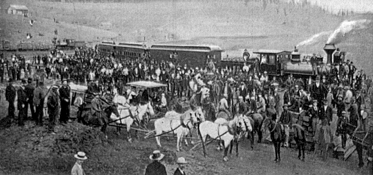 First passenger train on the narrow gauge Florence & Cripple Creek Railroad arrives in Cripple Creek July 1. 1894. The train was leased from Denver & Rio Grande Railroad and consisted of locomotive No. 39 "Chama", two coaches and a baggage car.